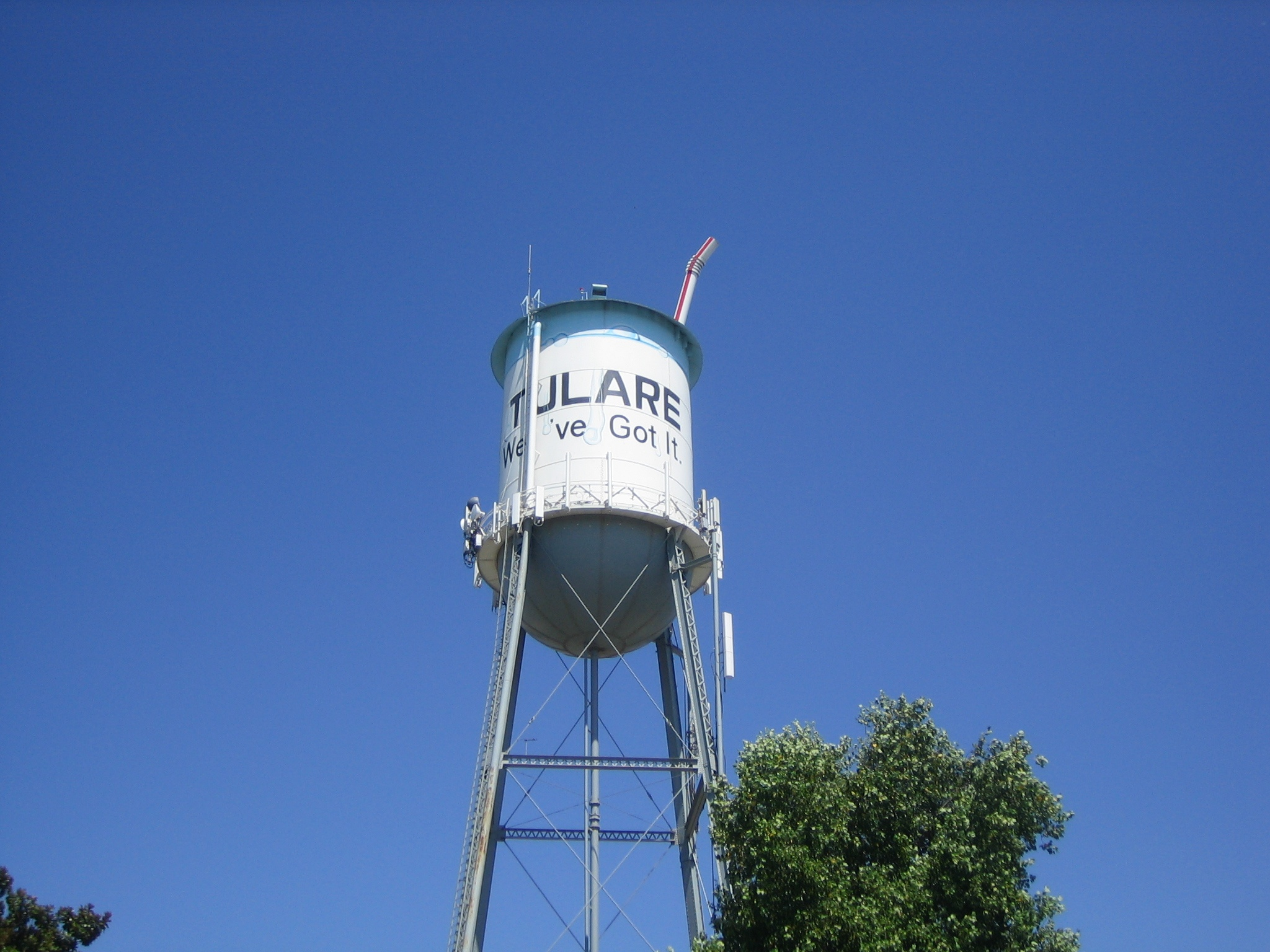 Tulare Water Tower, California